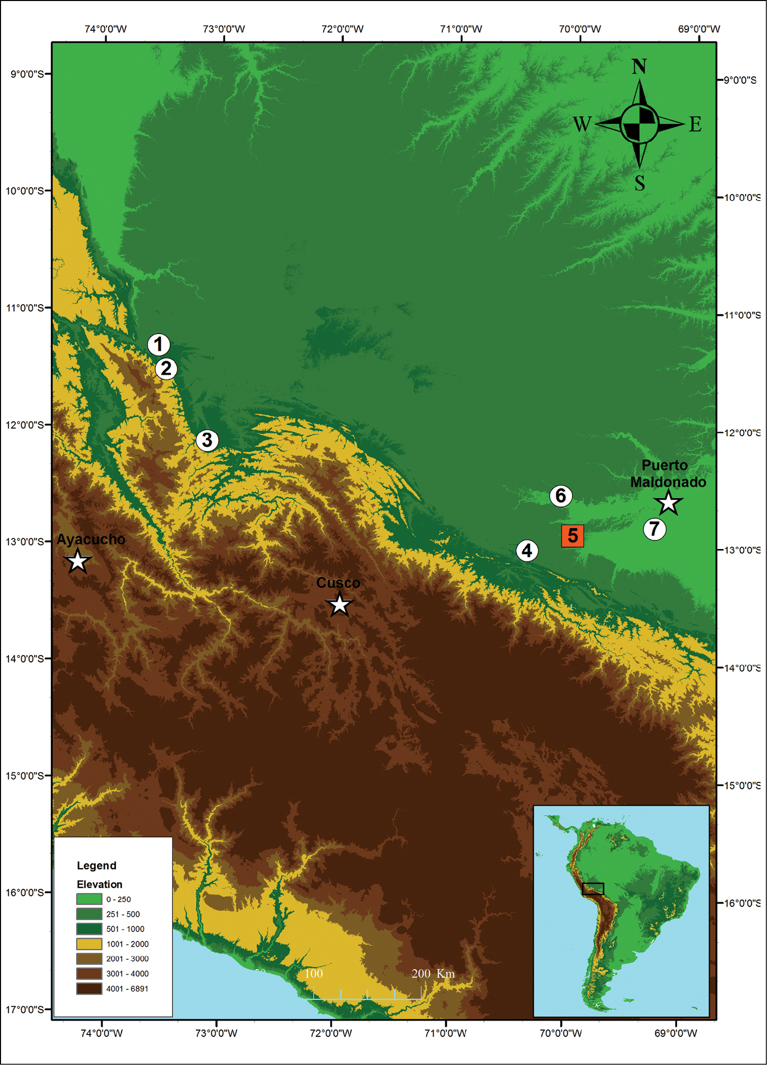 Amazophrynella javierbustamantei distribution map.